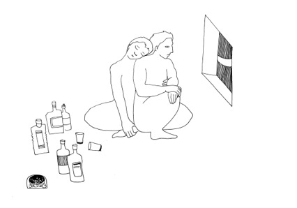 LGBT-related work by artist Farbod Morshedzadeh.